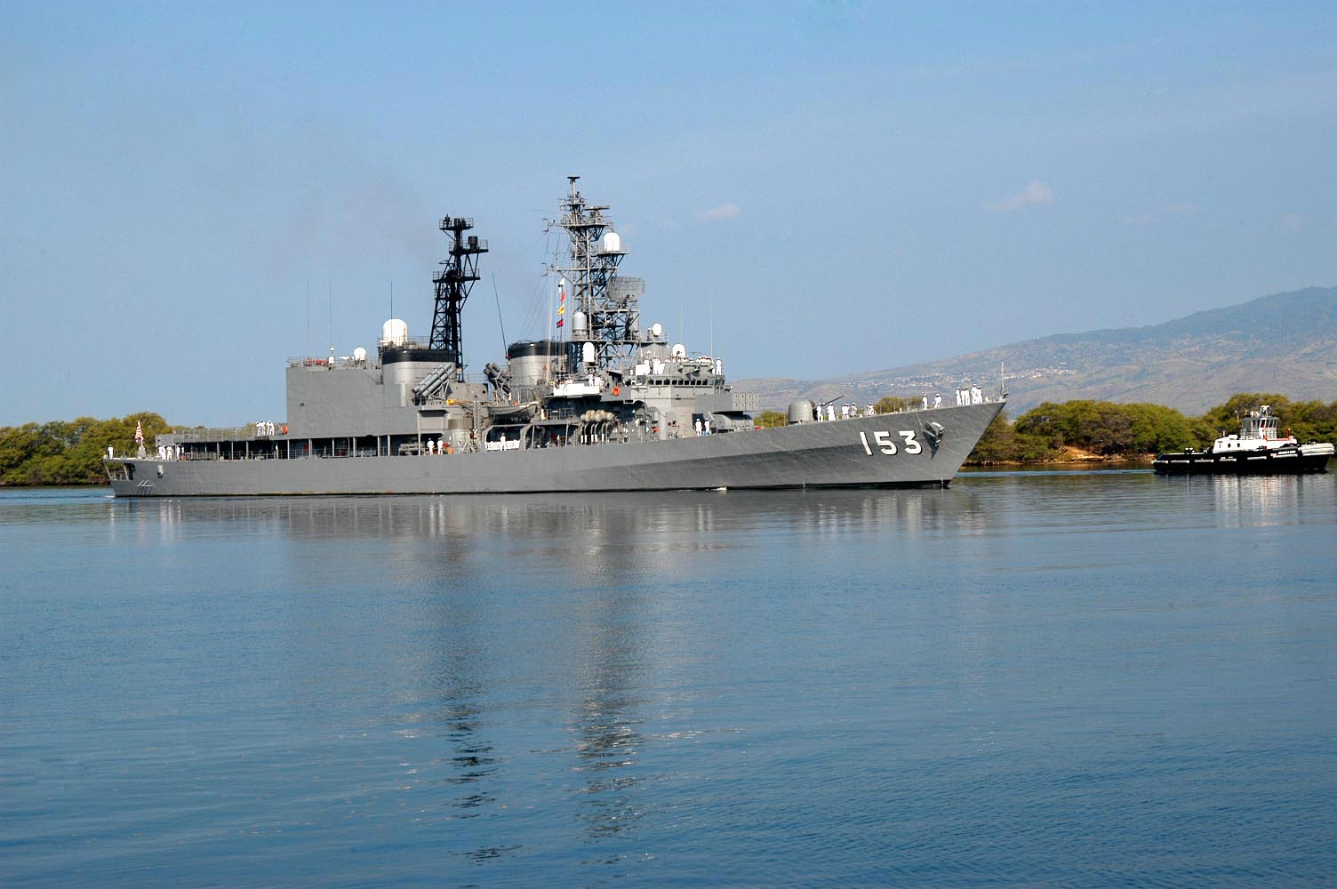 Pearl Harbor, Hawaii (May 3, 2005) — The Japanese Navy destroyer JDS Yūgiri (DD-153) pulls into Pearl Harbor, Hawaii. The purpose of this visit is to develop the seamanship and leadership skills of Japan's future leaders, as well as broadening the mutual understanding and friendship between the United States and Japan.